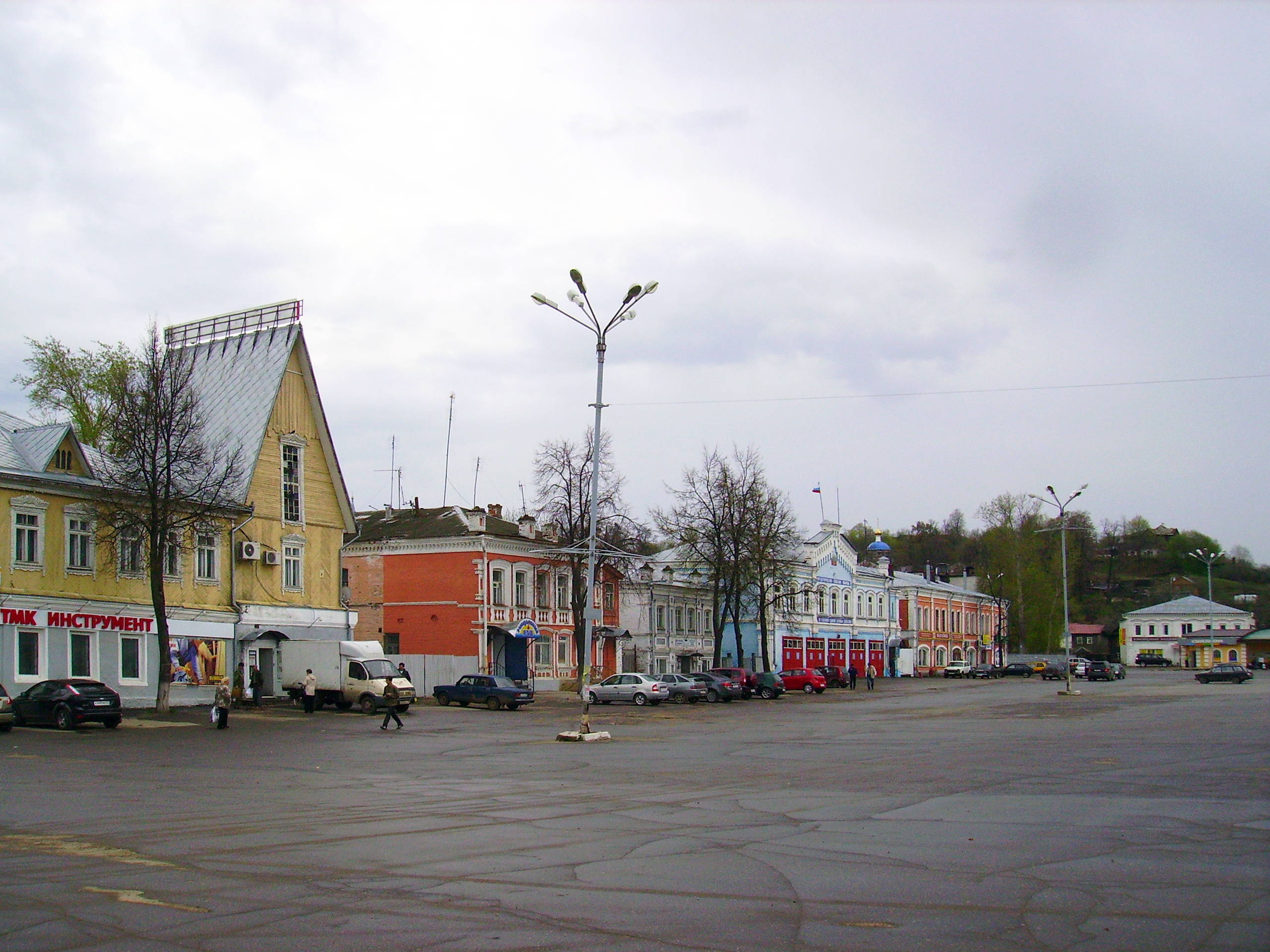 Sobornaya Square